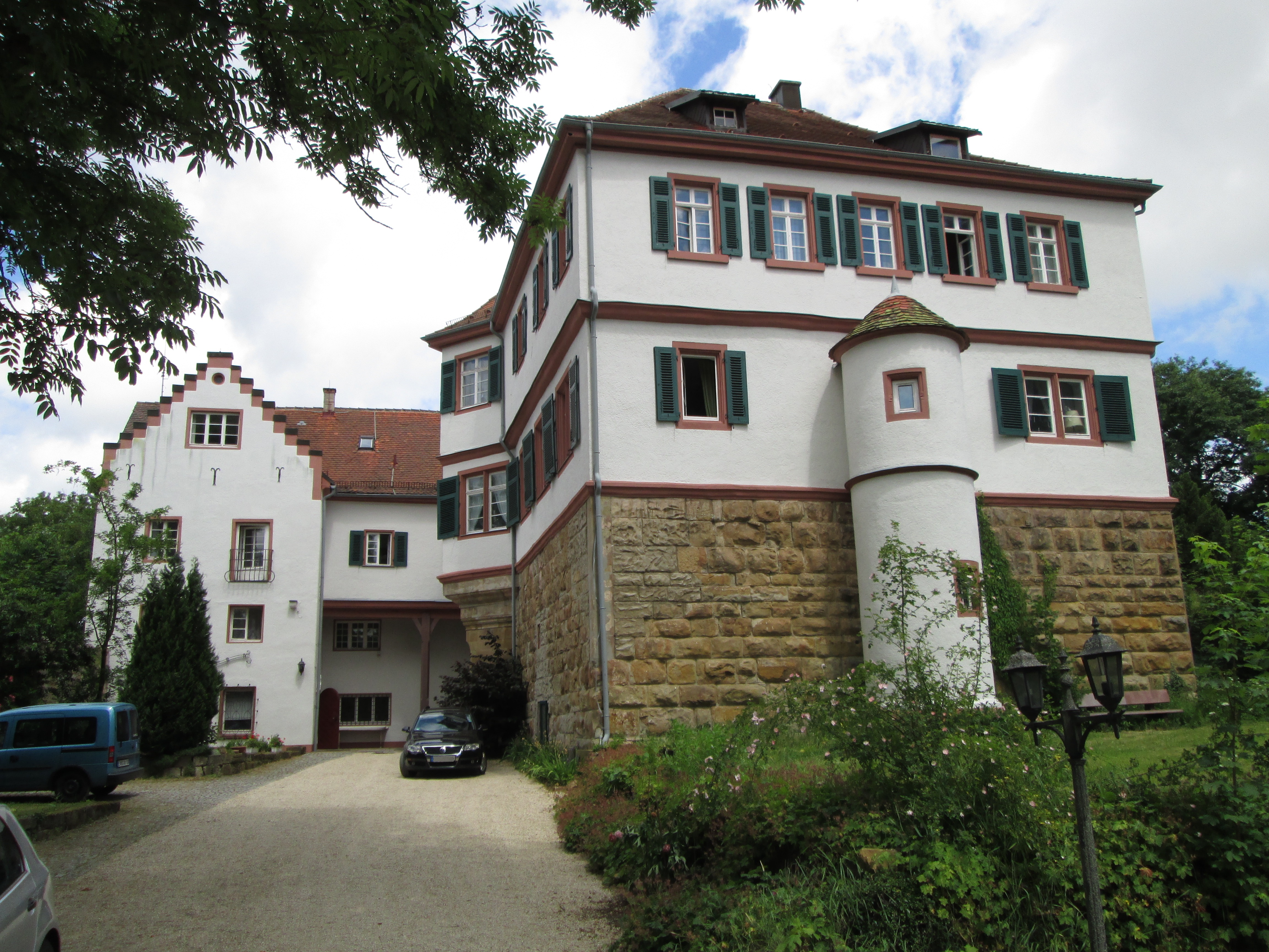 Lindach castle, Schwäbisch Gmünd, Germany, main building seen from courtyard (south)